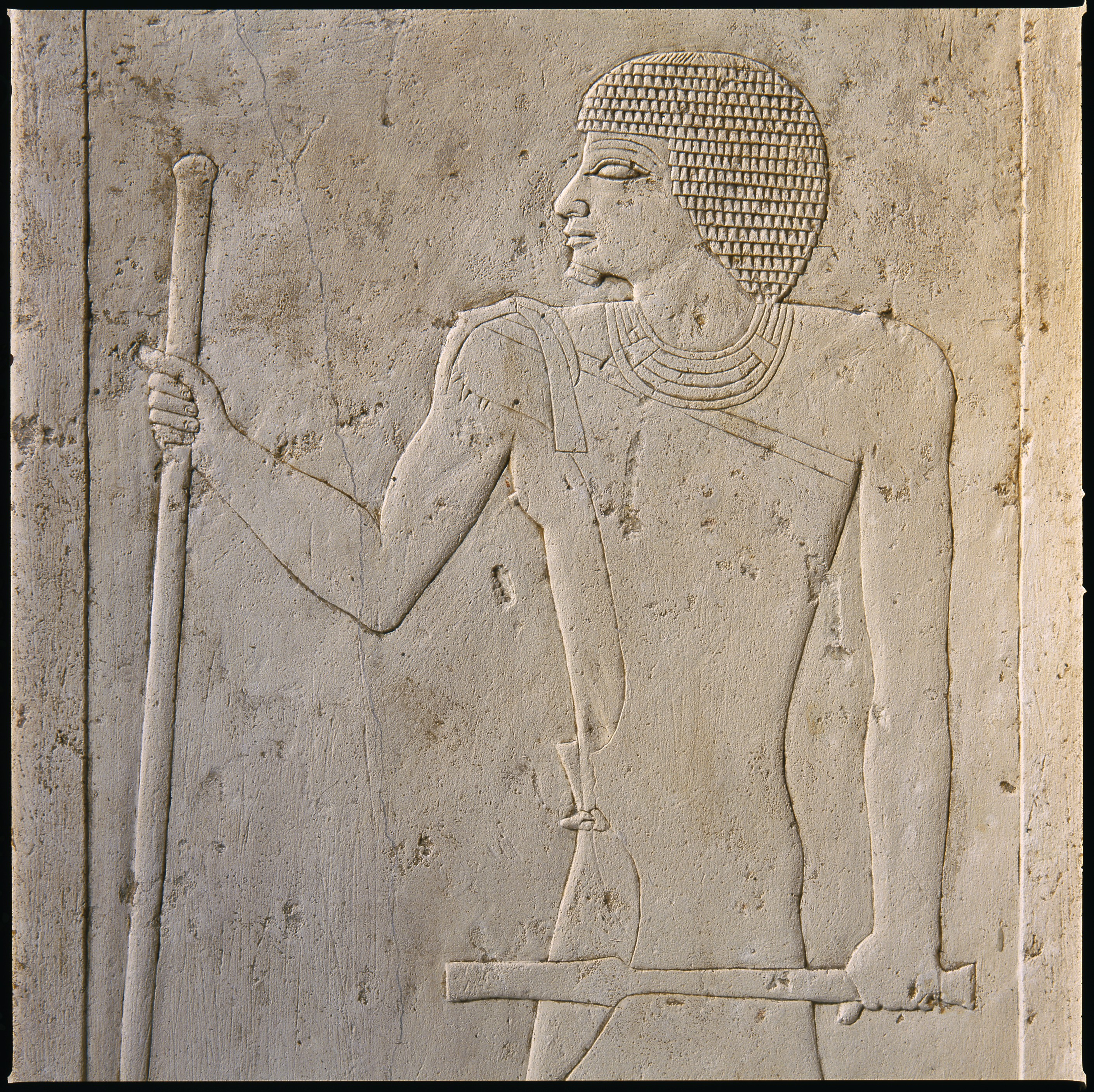 Relief, Tomb Chapel, Raemkai, false door